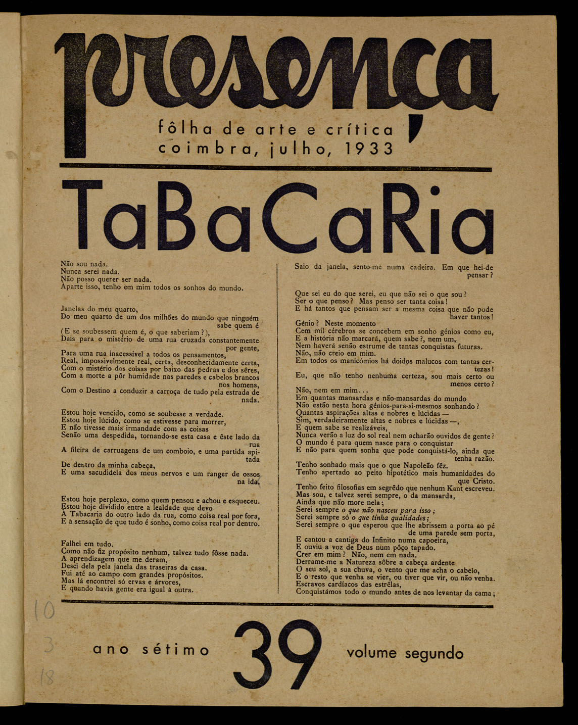 Presença 39, fôlha de arte e crítica. Coimbra, julho 1933, página 1.